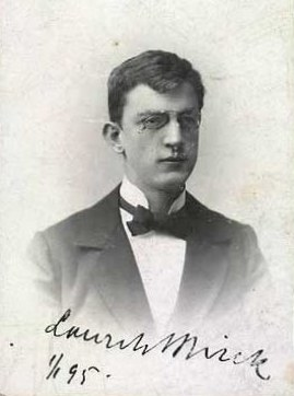 Lauritz Vilhelm Birck (1871-1933), Danish economist, editor, professor, and politician, MP